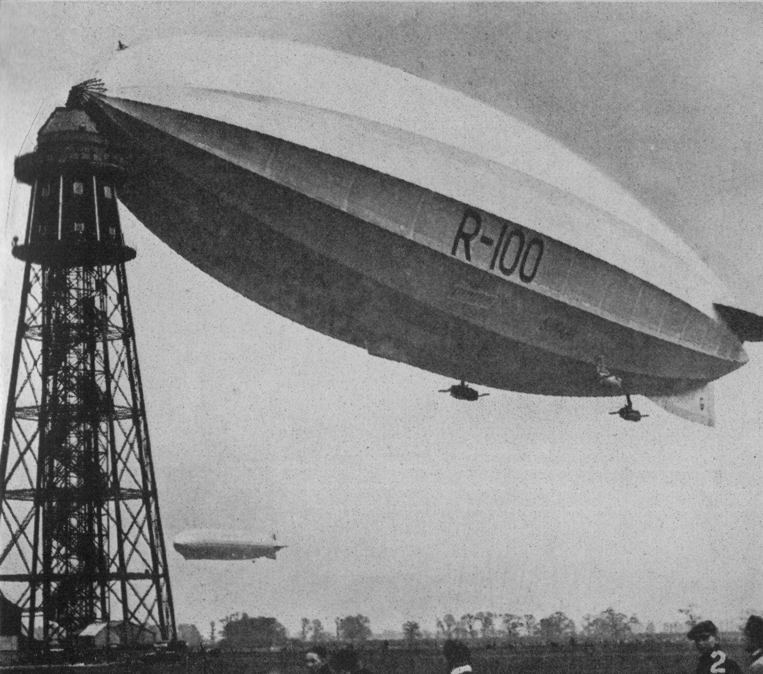 R-100 at her mooring mast at Cardington while the Graf Zeppelin circles round, April 1930 Approximate date of photograph: 1930-04